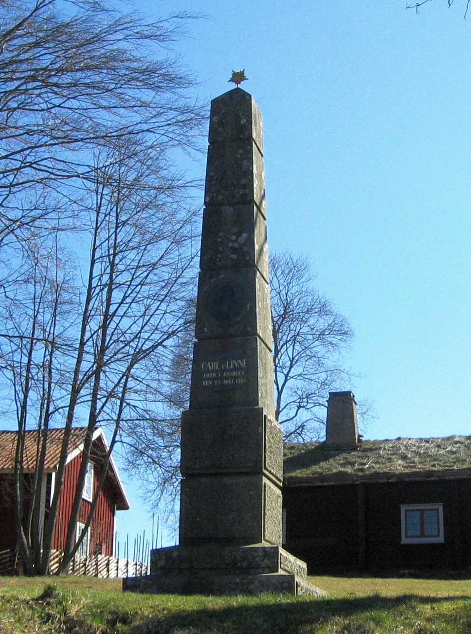 Birth place of Carolus Linnaeus (Carl von Linné), vicar's homestead (komministerboställe) at Råshult, Småland, Sweden. Monument behind the house. This photo (C) by Lars Aronsson on April 13, 2007, may be used according to Creative Commons Share-Alike license.